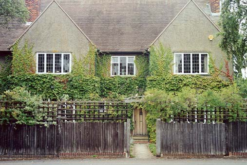 Photograph of the building at 20 Northmoor Road, Oxford, England, former home of the author J. R. R. Tolkien (1930 - 1949).